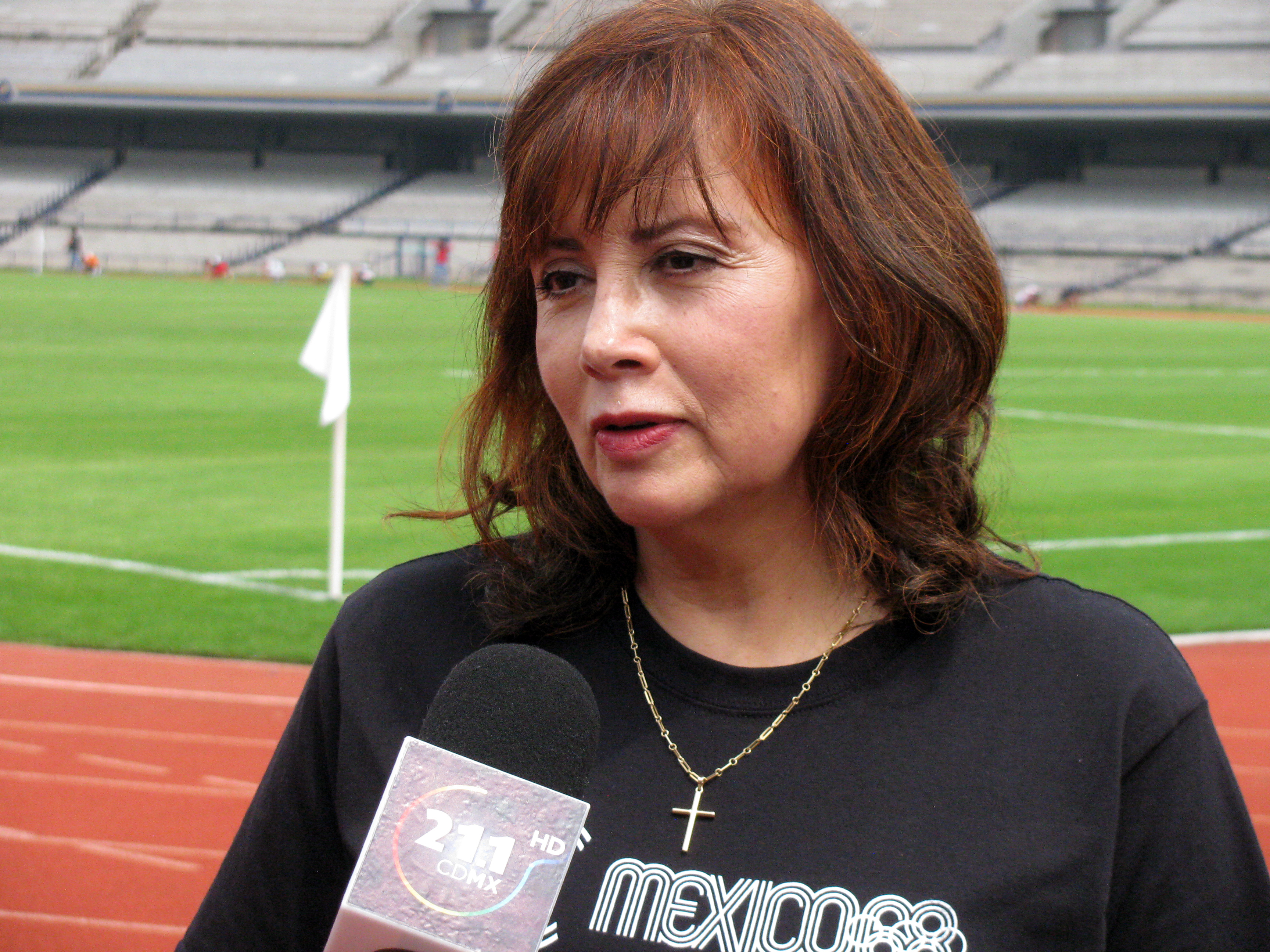 María Teresa Ramírez. Event to commemorate the 50th anniversary of the 1968 Olympic Games in Mexico. University Olympic Stadium, Mexico City, Mexico.